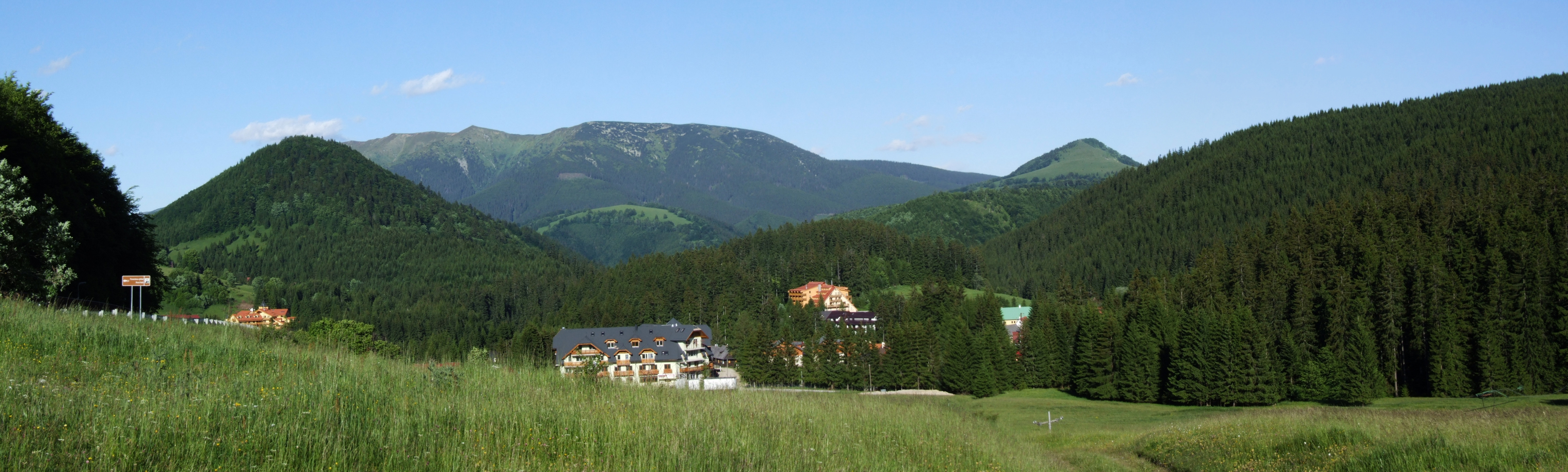 Low Tatras in Juni - view from Donovaly